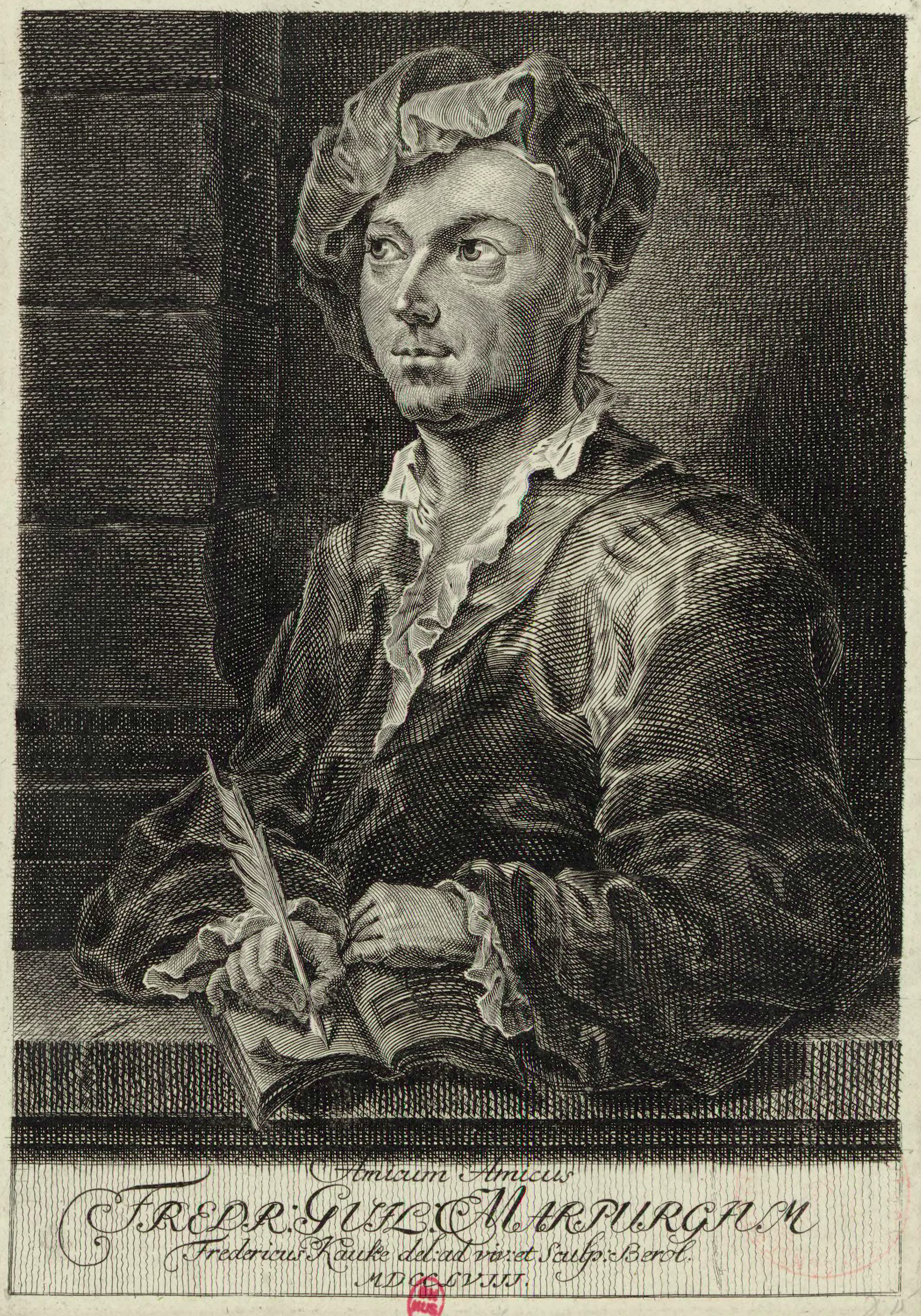 Engraving of a portrait of Friedrich Wilhelm Marpurg by Friedrich Kauke